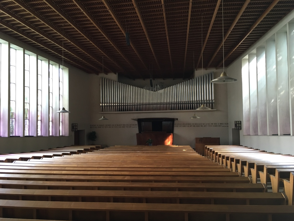 Interior, view to pulpit and organ gallery